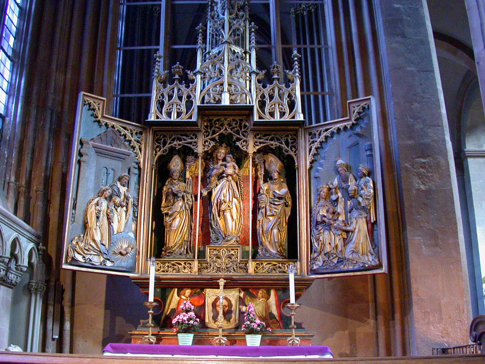 Polyptych in the Mainz Cathedral. Carving of the altarpiece attributed to Hans Wydyz, about 1510. The Madonna with the Child, is named the "Beautifuly Lady of Mainz". She is flanked by Saint Martin of Tours, patron saint of the diocese of Mainz and Saint Boniface the first archbishop of Mainz.